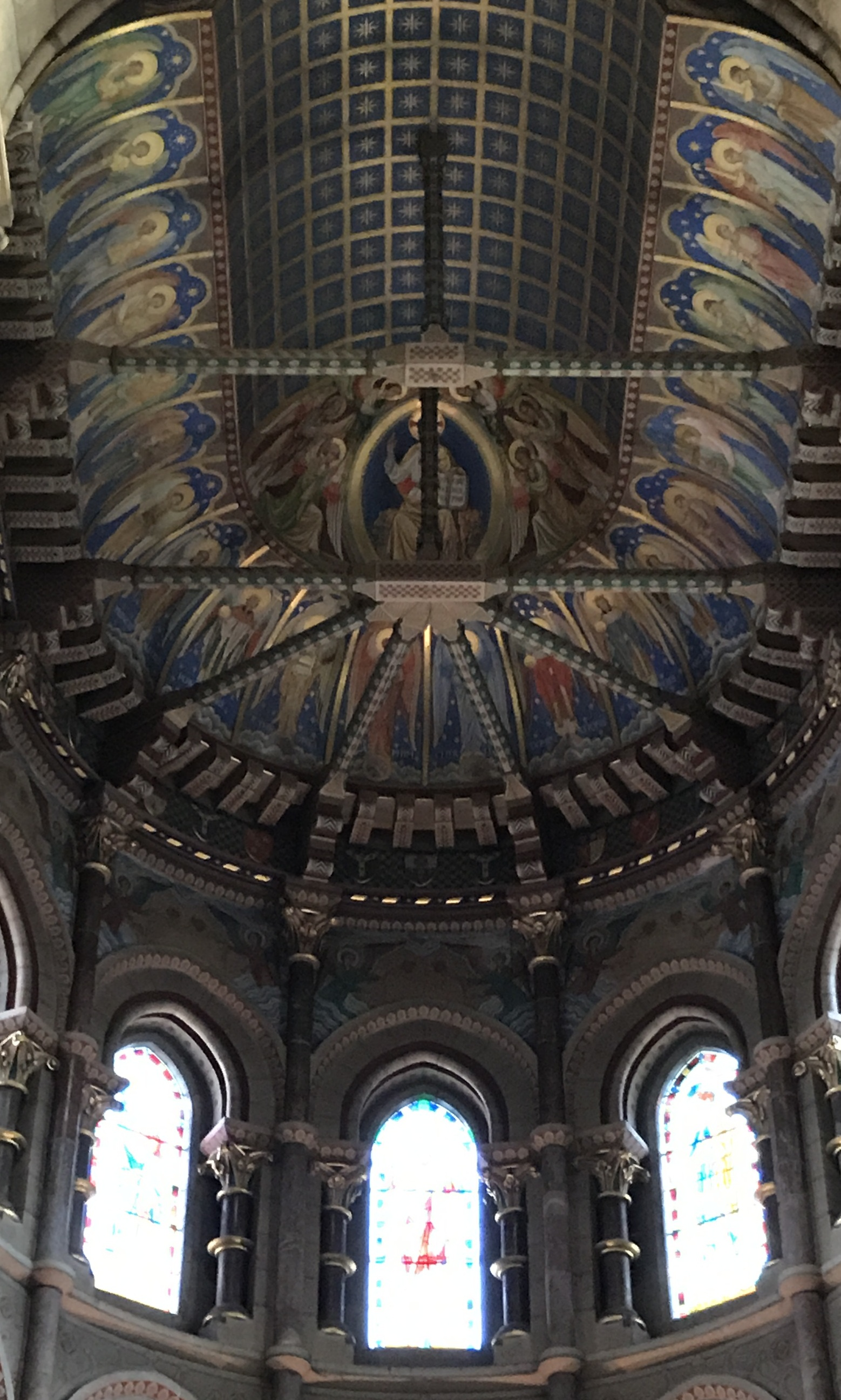 Apse and ceiling